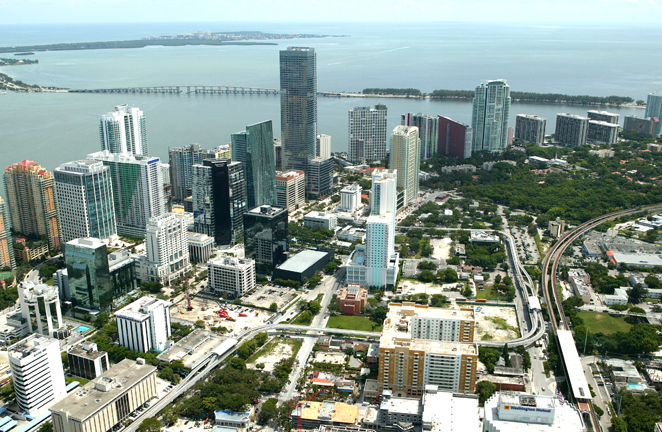 Brickell, Miami, Skyline Edgardo Vera; Skyline Equities Realty